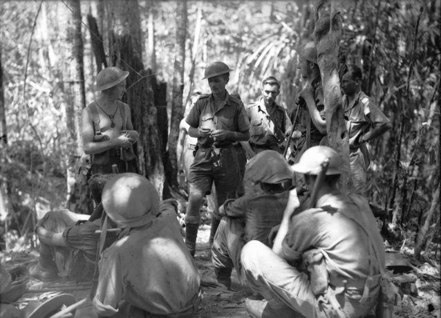 Lieutenant Colonel A.G. Cameron, commanding officer of the Australian 3rd Infantry Battalion, delivers orders prior to a patrol around Menari, in September 1942